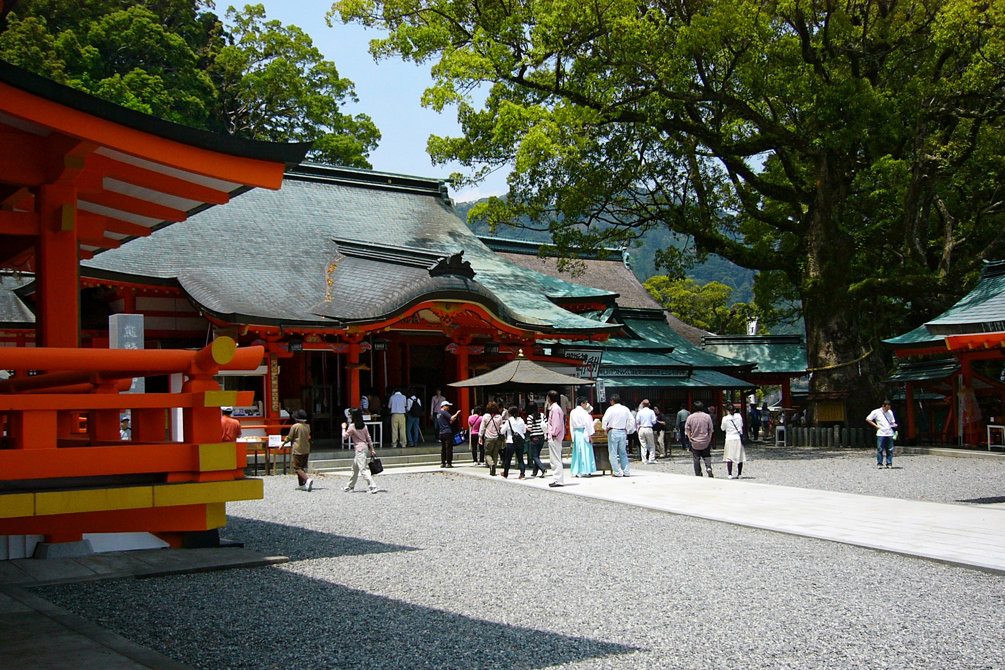 Kumano-Nachi-shrine in Nachikatsuura, Wakayama Prefecture, Japan.